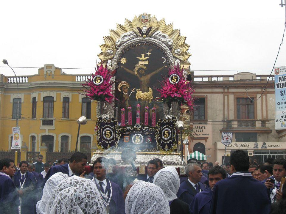 Imagen del Señor de los Milagros de Barranco recorriendo las tradicionales calles del distrito